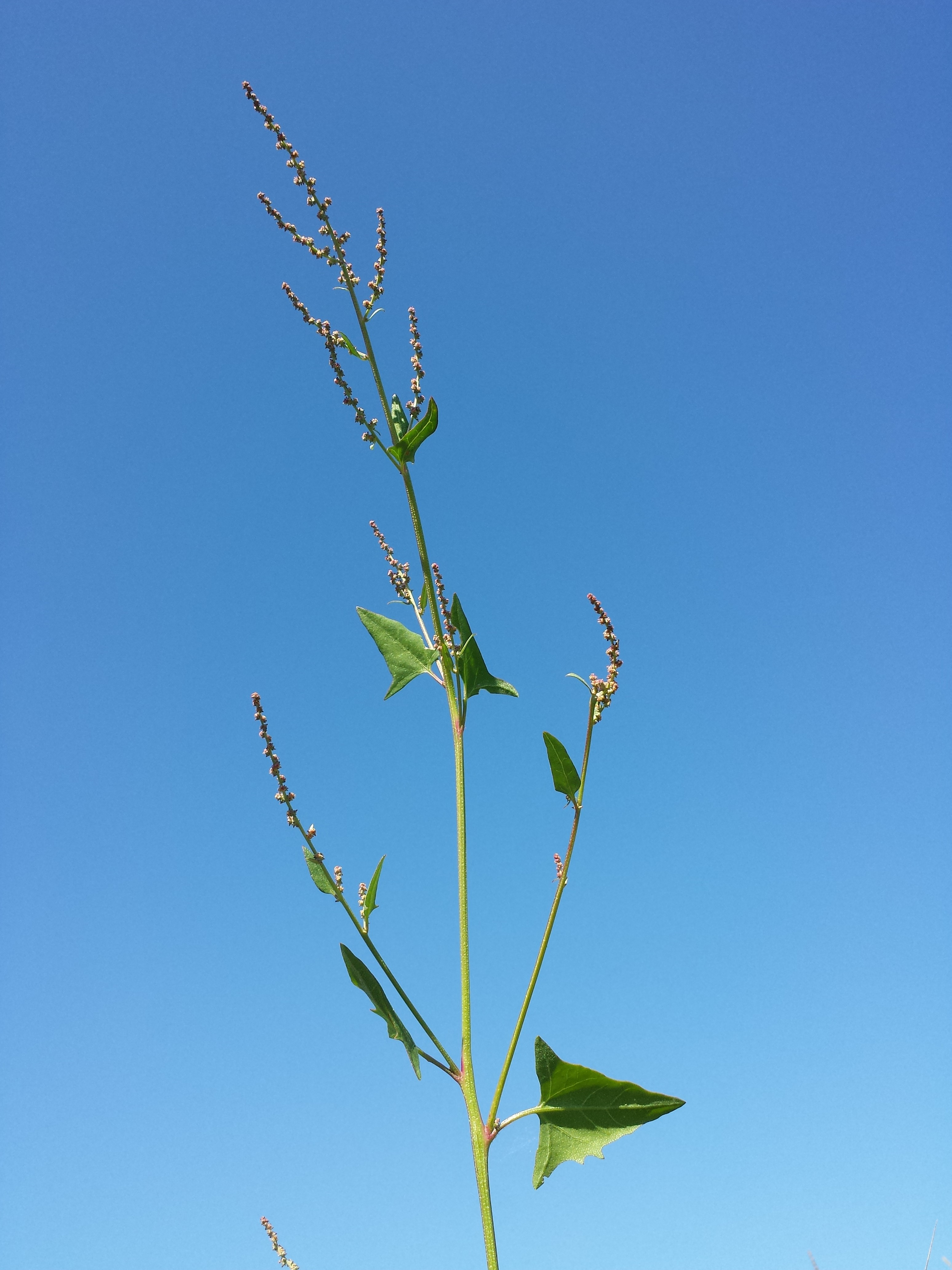 Habitus Taxonym: Atriplex prostrata ss Fischer et al. EfÖLS 2008 ISBN 978-3-85474-187-9 Location: nature reserve Zwingendorfer Glaubersalzböden - Hintausacker, district Mistelbach, Lower Austria - ca. 185 m a.s.l. Habitat: salt meadows